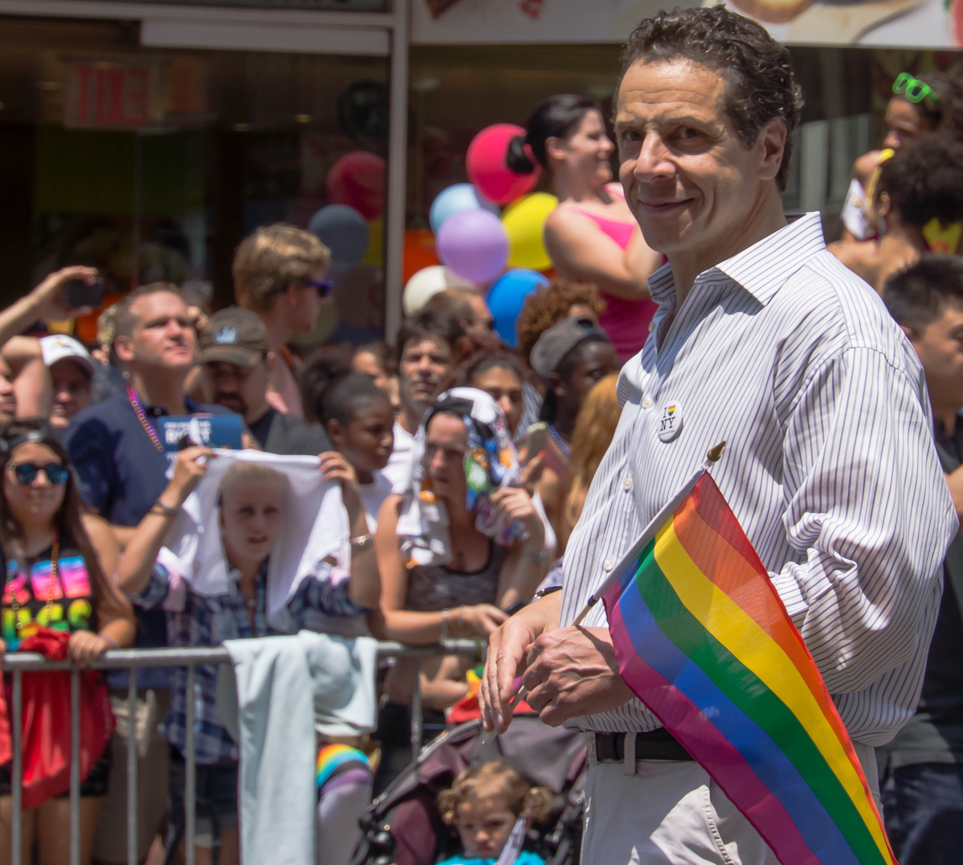 Cuomo at New York City's Gay Pride in 2013